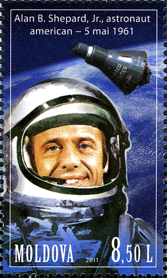 Stamps of Moldova